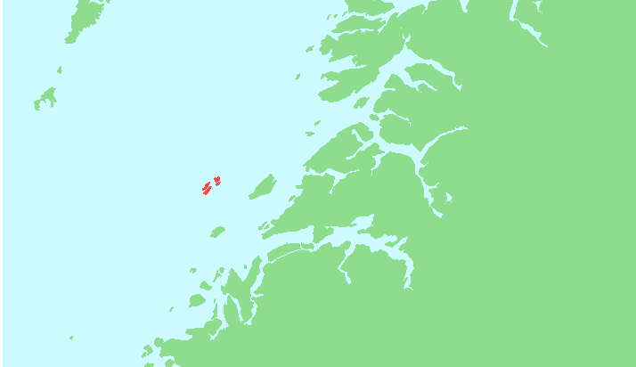 Locator map of Helligvær, Nordland, Norway